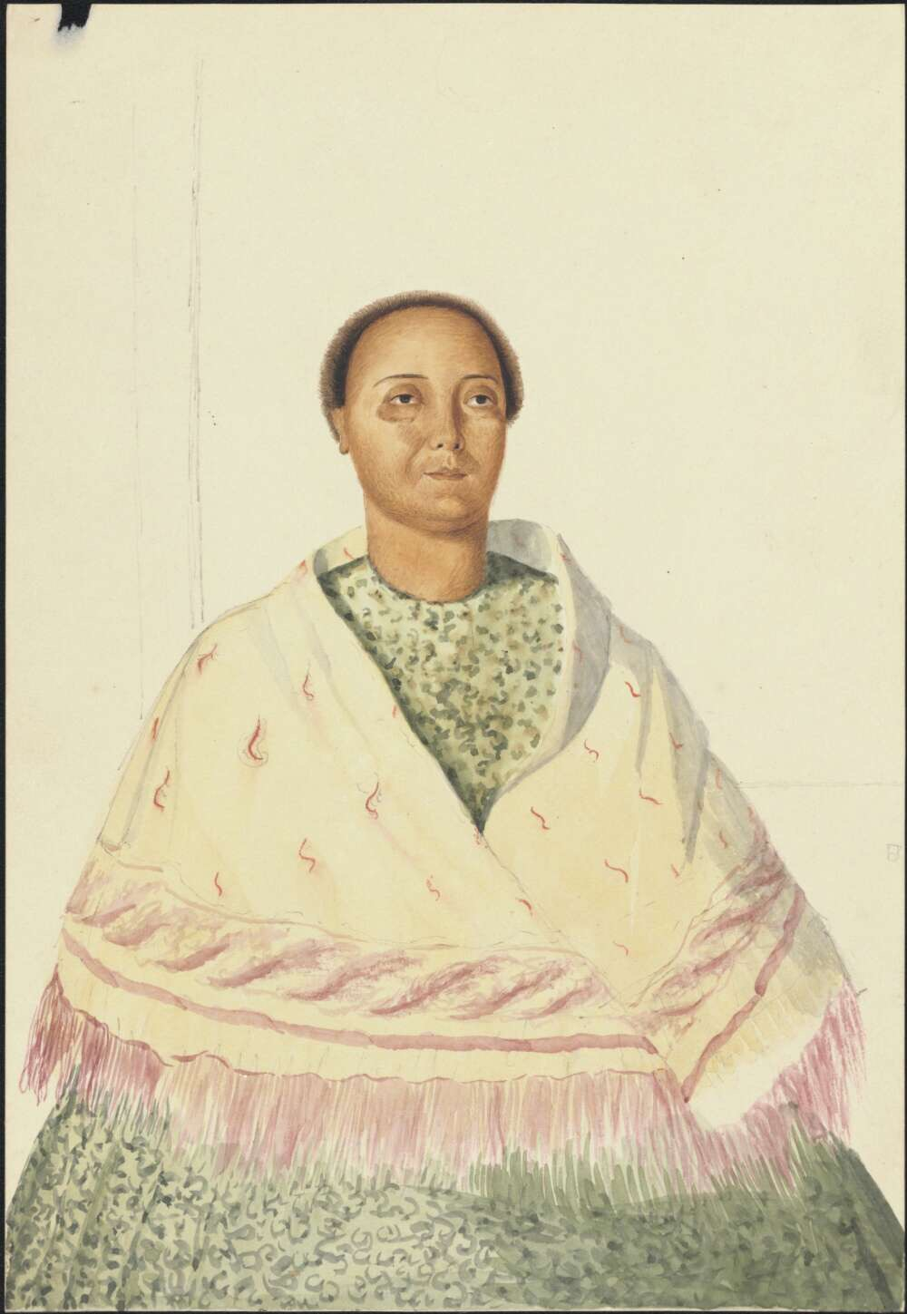 Queen Charlotte of Tongatabu, 1854, watercolour painting by James Gay Sawkins; 25.5 × 17.5 cm. This portrait portrays Queen Sālote Lupepauʻu.